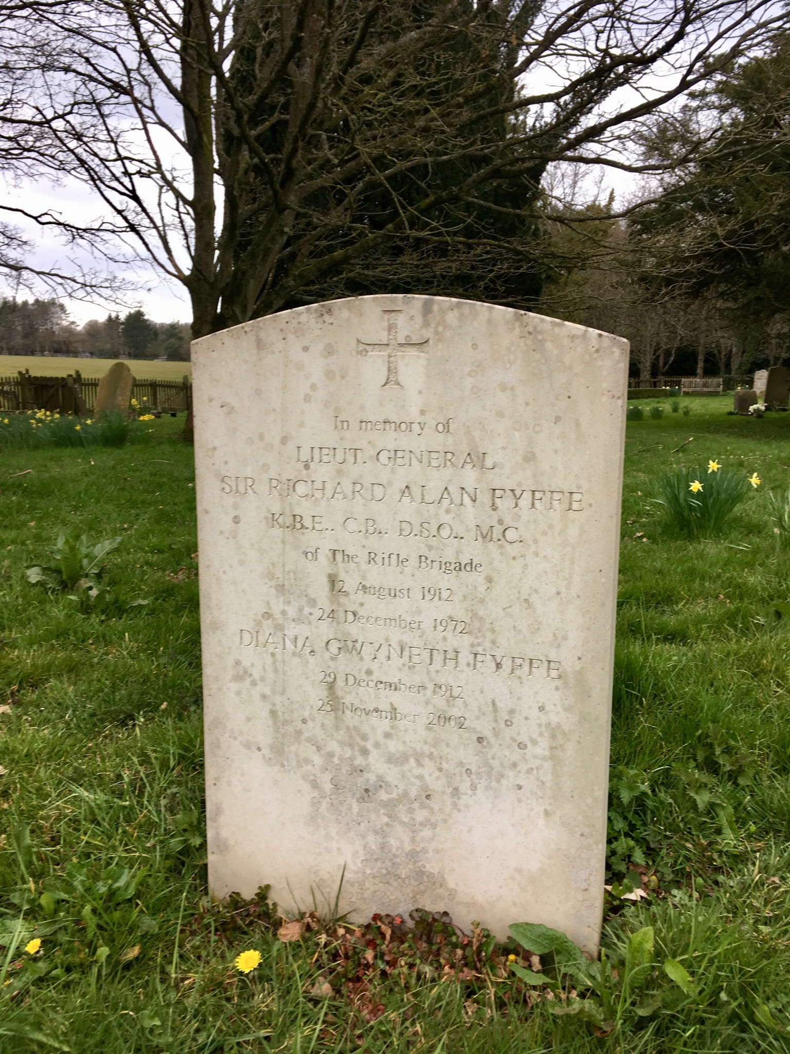 Great Hampden, March 2020 01